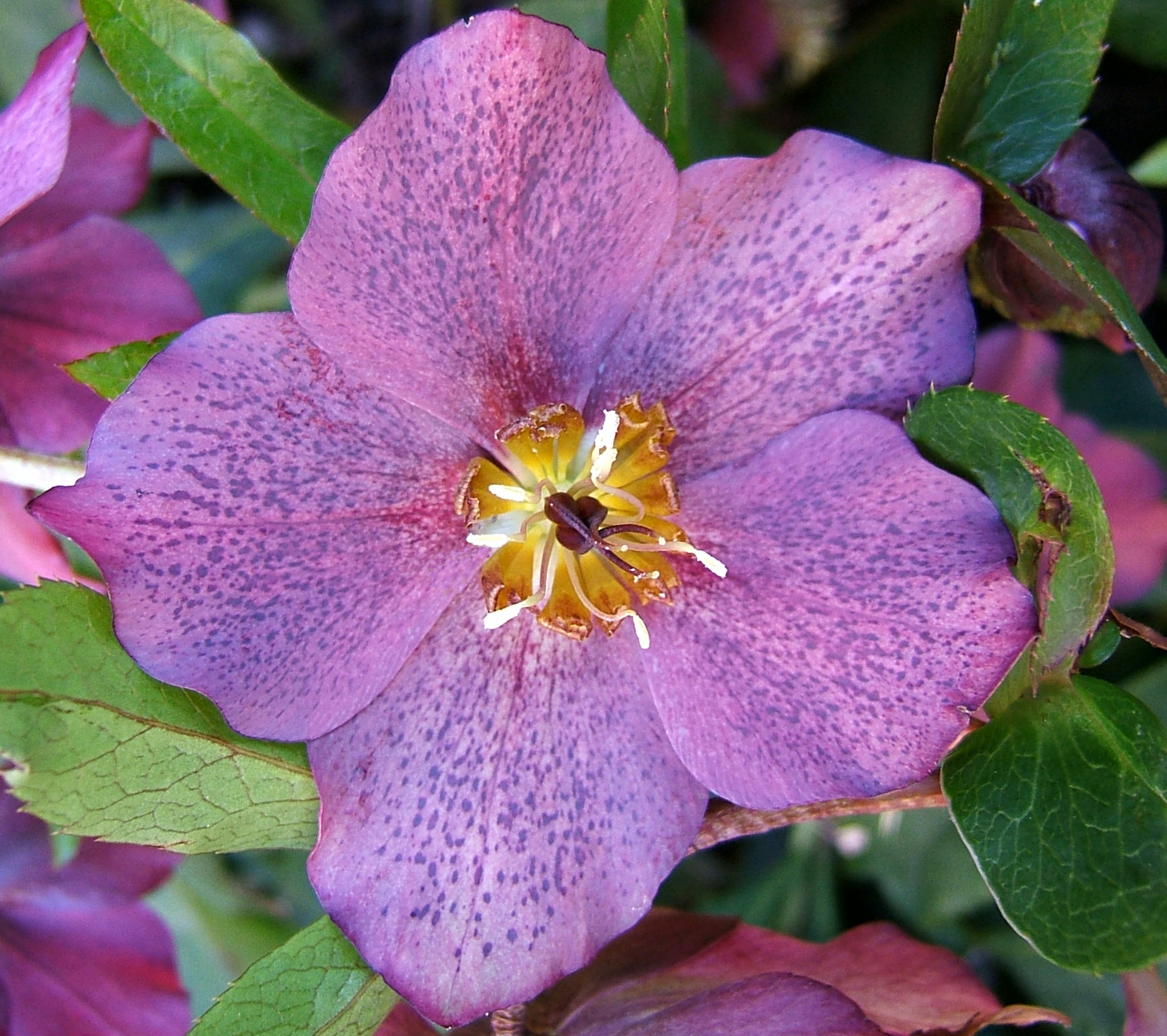 Plants growing in a half shady place at 240 m in Rems Valley, a warm viniculture region in Baden_Württemberg, Germany.